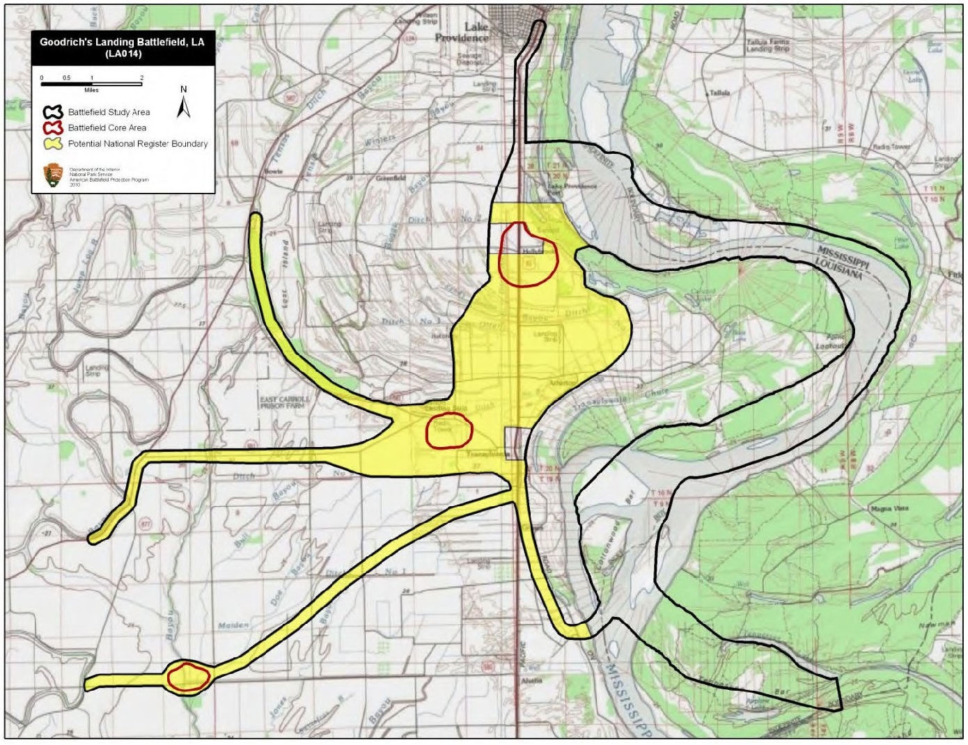 Map of battlefield core and study areas. The ABPP significantly revised the CWSAC’s 1993 battlefield boundaries. The location of Goodrich’s Landing was found to be further south than originally thought in 1993 and the Study Area was revised accordingly. The Study Area was also expanded to include the Mississippi Marine Brigade’s line of march from Young's Point to intercept Parson’s retreating Confederates. An additional Core Area at Bayou Tensas was drawn to represent the Confederate rearguard action on June 30.